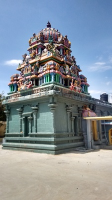 Etirkolpadi airavatesvarar temple மேலைத்திருமணஞ்சேரி எதிர்கொள்பாடி ஐராவதேஸ்வரர் கோயில்